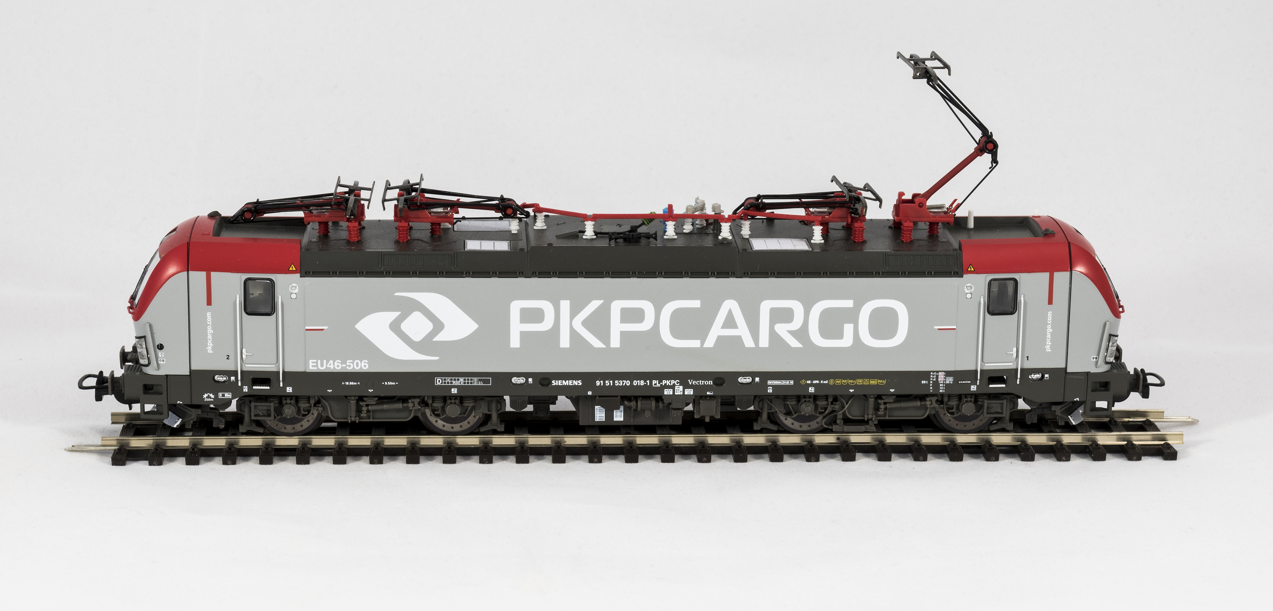 Siemens Vectron 193 locomotive model, painted by PKP Cargo, H0 scale